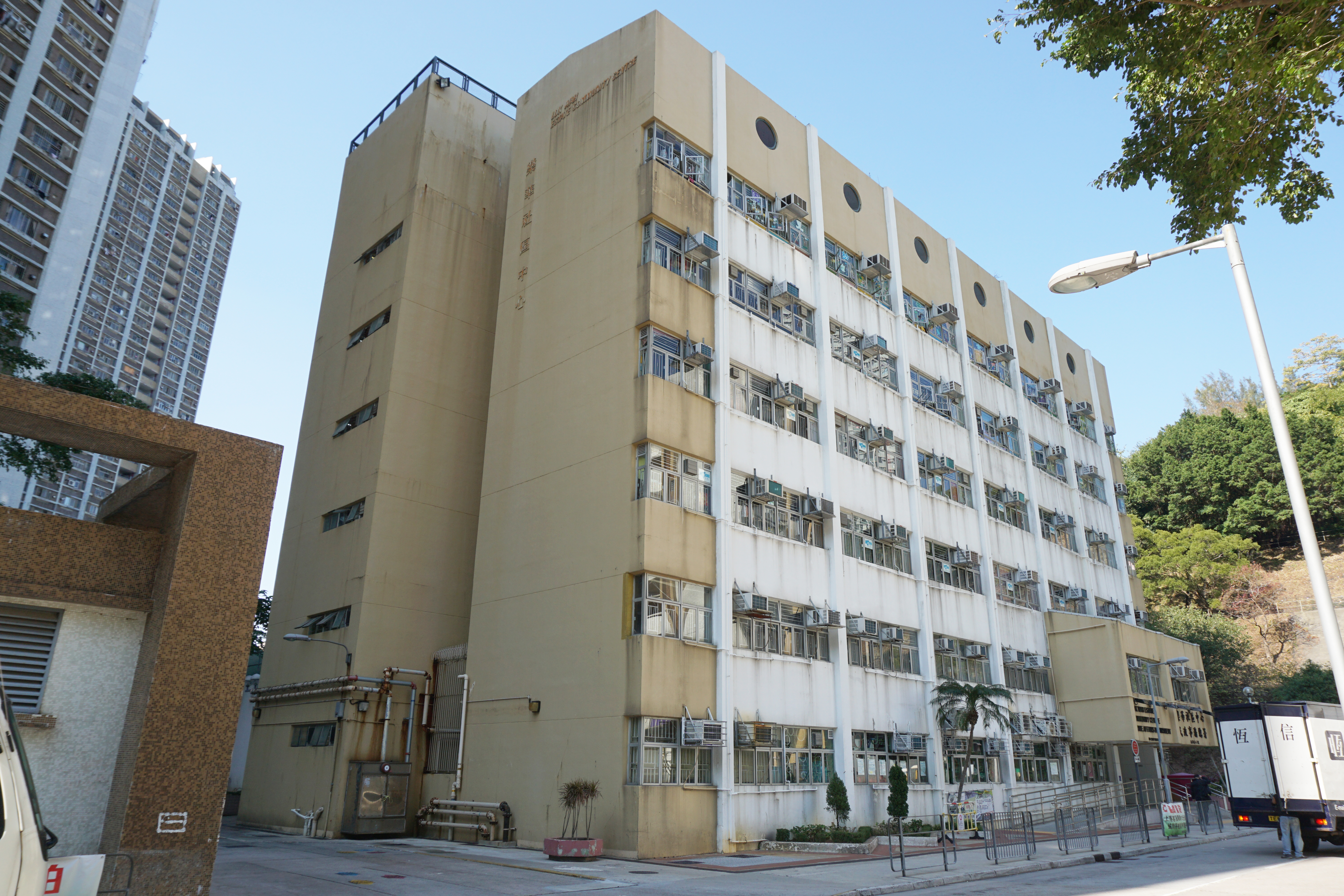 Lok Wah Estate in Ngau Tau Kok, Hong Kong.